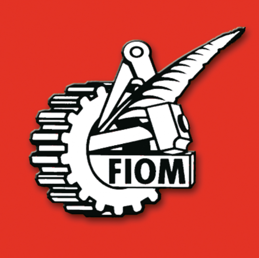 Logo of FIOM